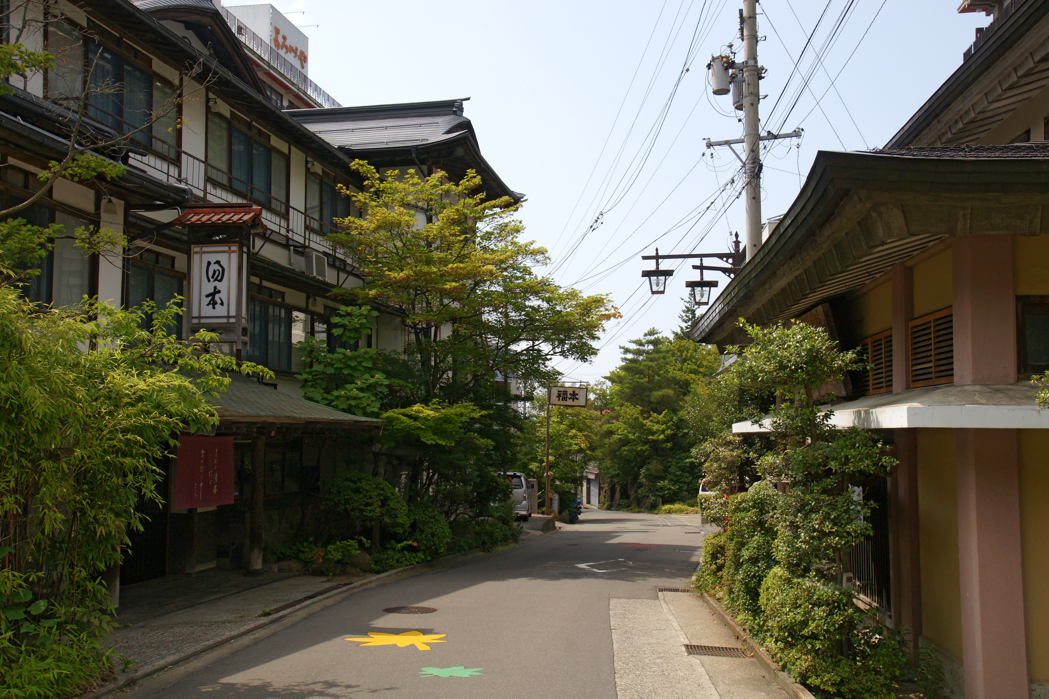 Yudanaka Onsen ,Yamanouchi, Nagano prefecture, Japan